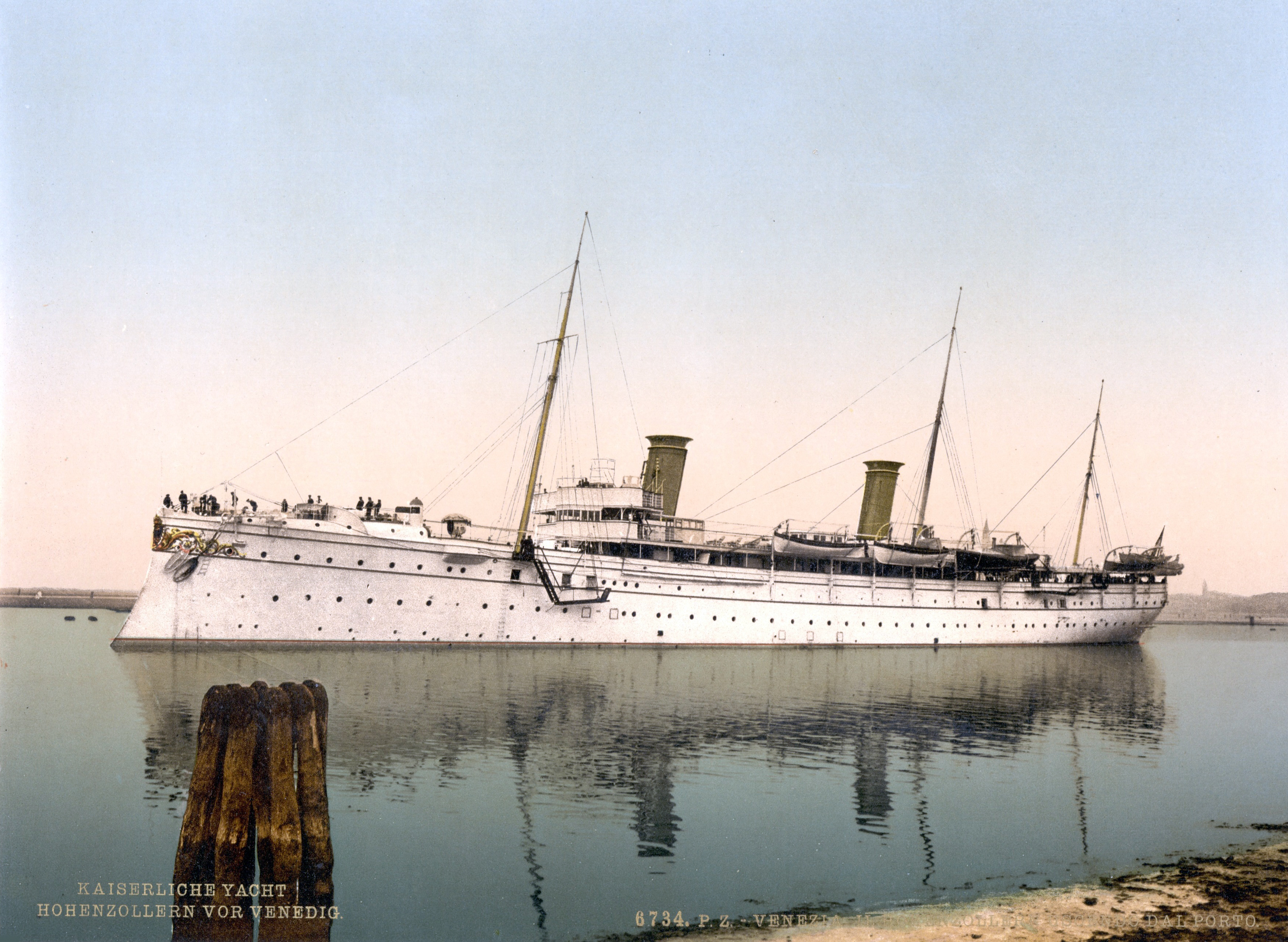 More information about the Photochrom Print Collection is available at Print no. "6734".; Title from the Detroit Publishing Co., Catalogue J-foreign section, Detroit, Mich. : Detroit Publishing Company, 1905.; Forms part of: Views of architecture and other sites in Italy in the Photochrom print collection.